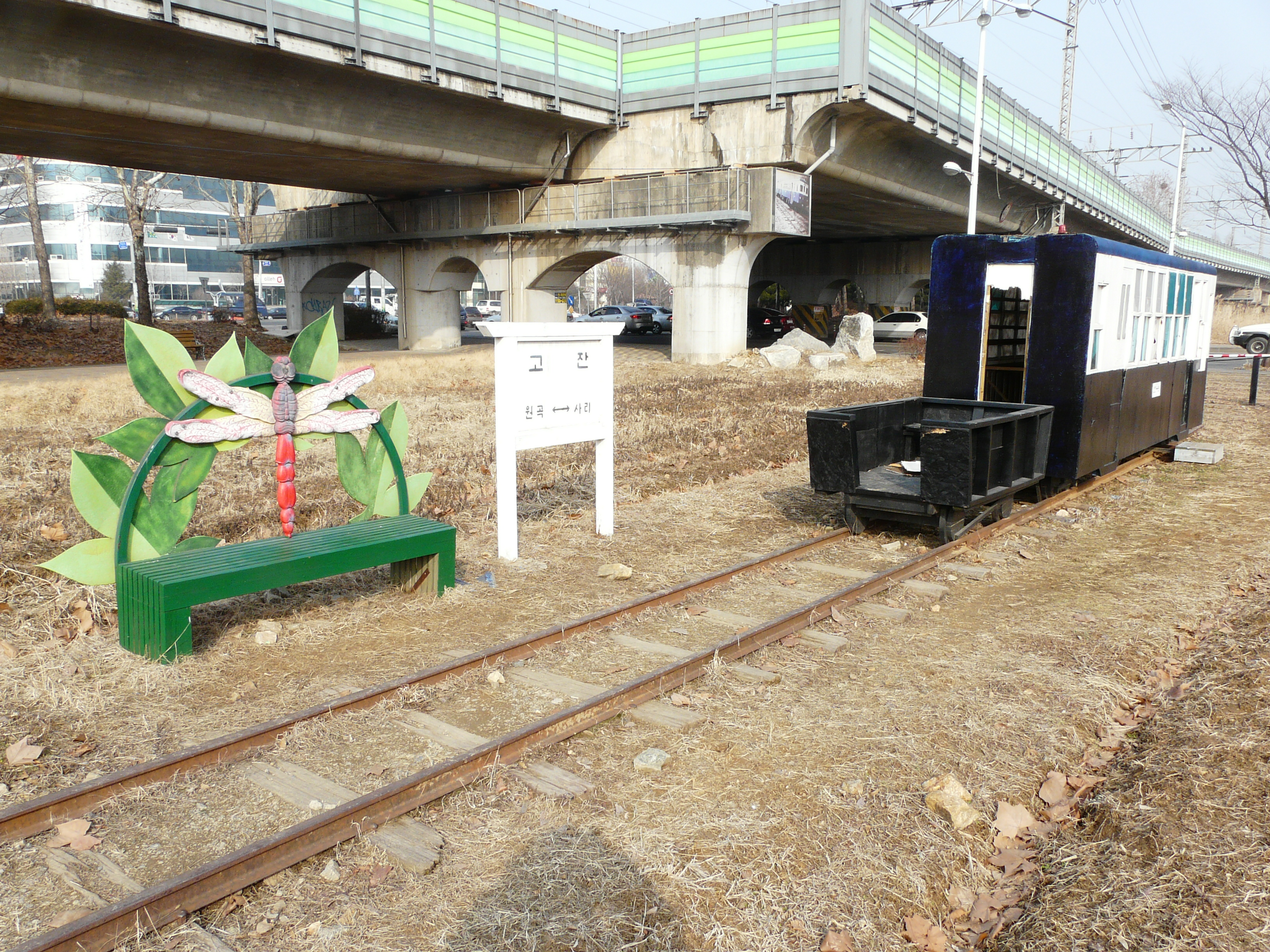 Photos from the city of Ansan, Korea.